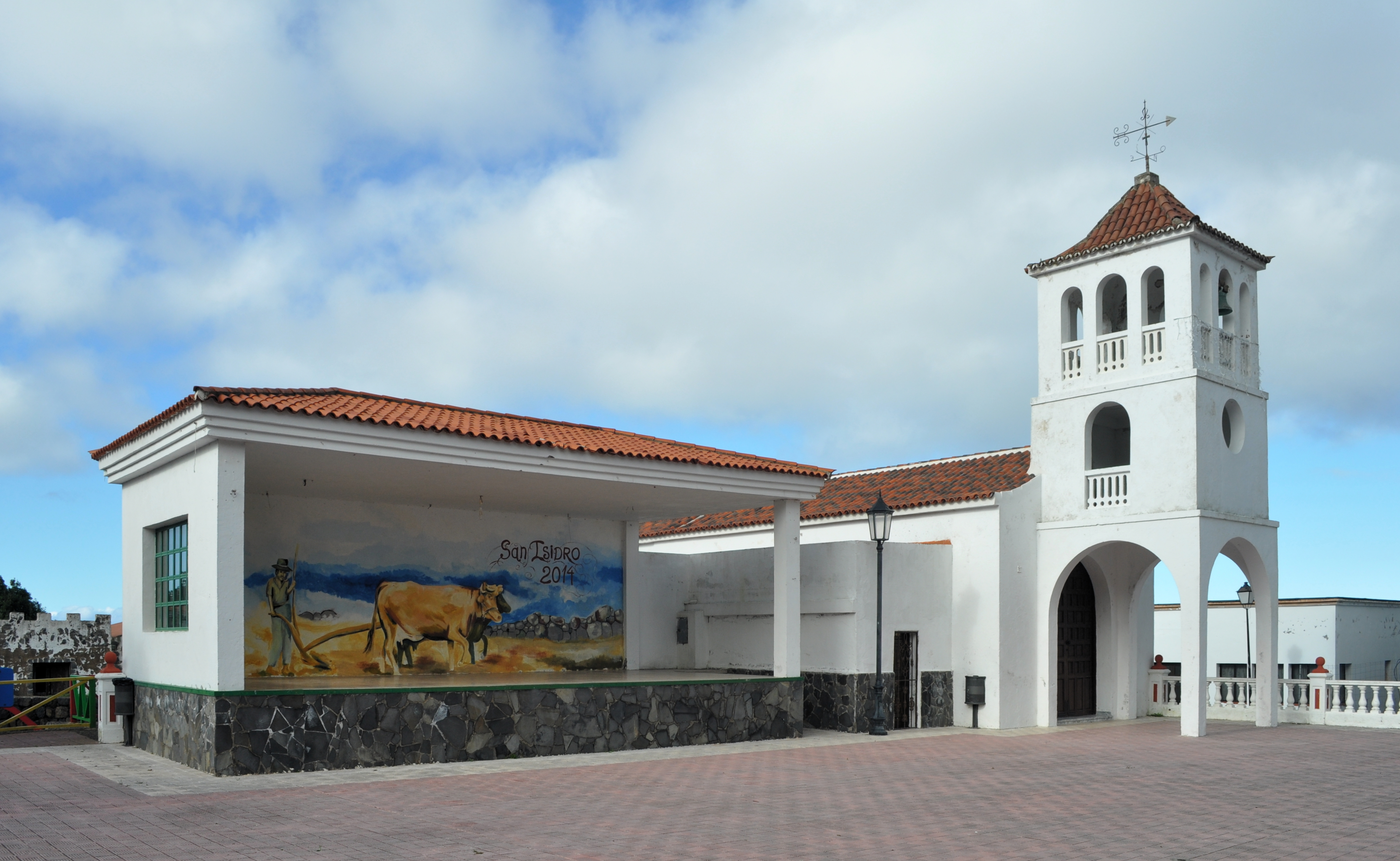 Church of San Isidro in Ruigomez, Tenerife